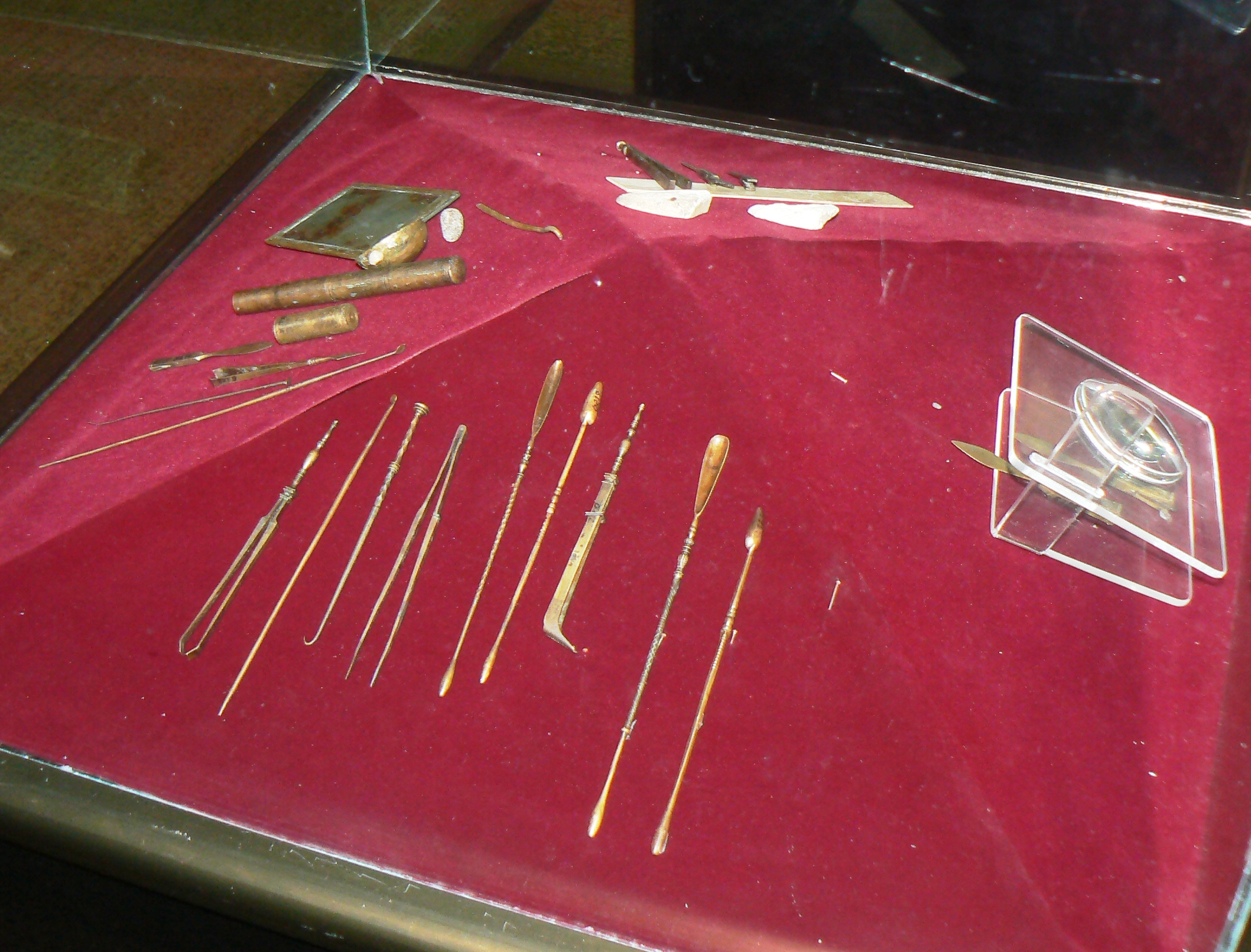 Exhibits of the History Museum of Nova Zagora, Bulgaria - Roman medical instruments found at Karanovo, 1st-2nd cent. AD